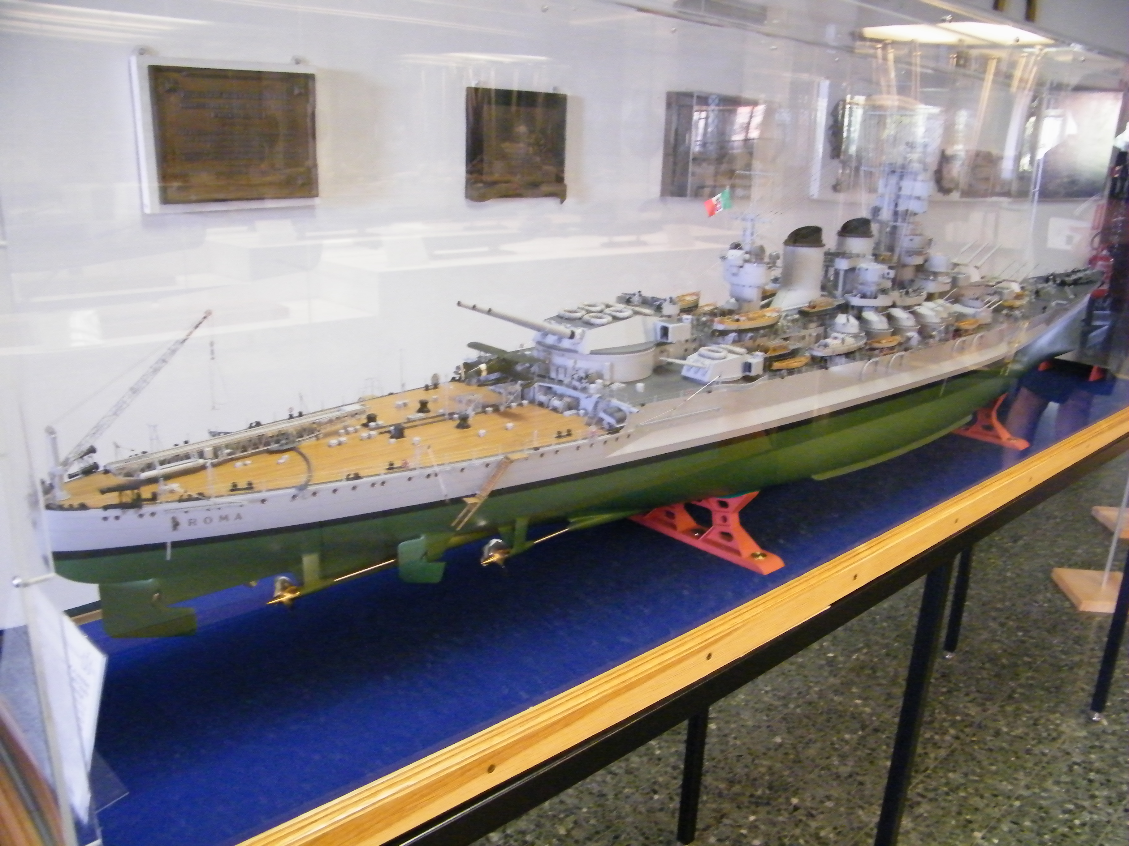 Reproduction of the italian battleship "Roma"